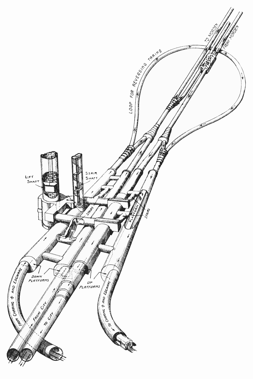 Illustration of Kennington station on the London Underground's Northern line as reconstructed in 1920s when the City and South London Railway's station was rebuilt with two additional platforms when the Hampstead Tube was extended to it. Drawing shows the loop constructed for reversing trains on the Charing Cross branch that terminate at Kennington. The new platforms opened on 13 September 1926.